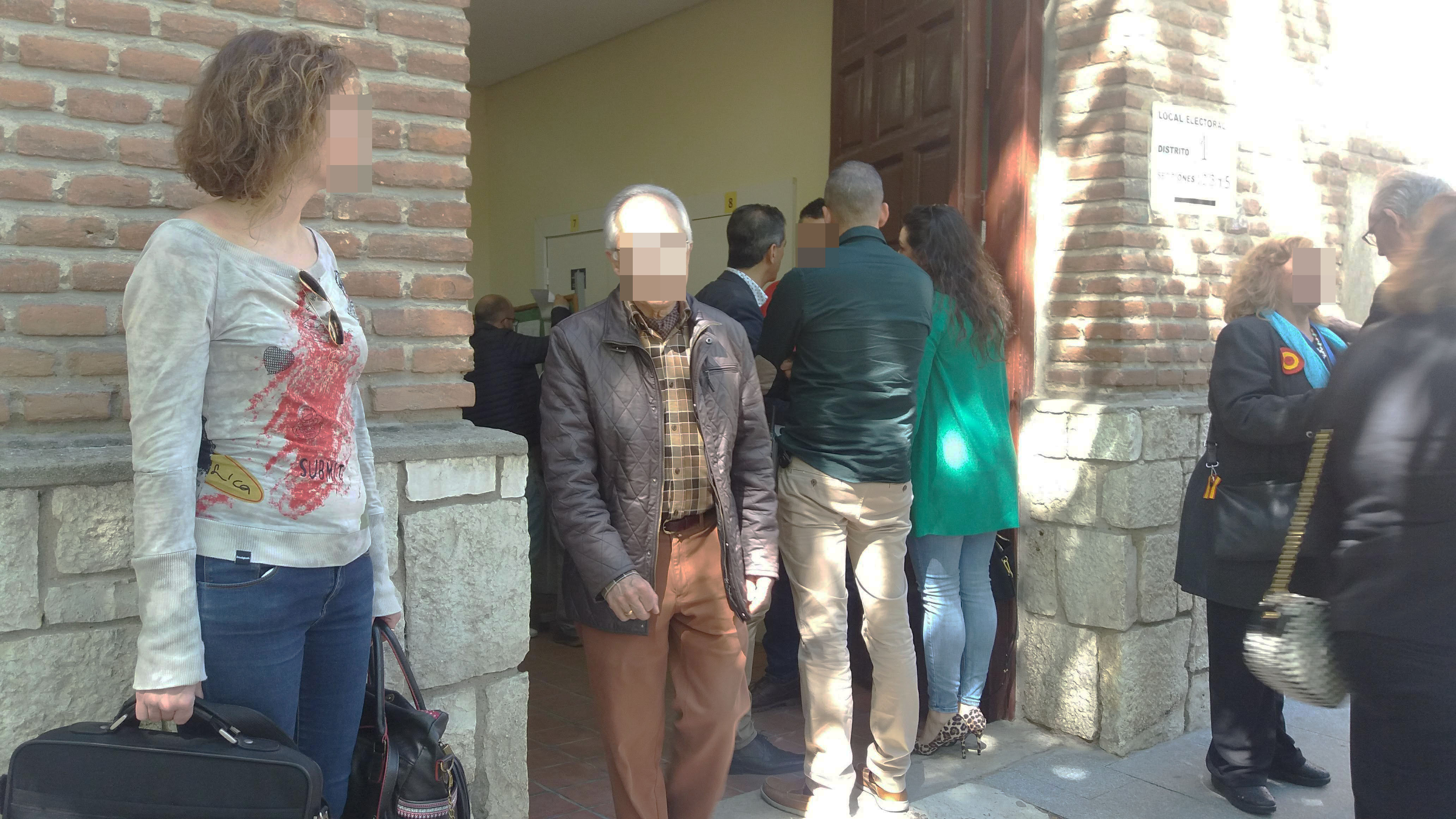 Picture taken on April 28, 2019 at Cardenal Cisneros School, Alcalá de Henares.